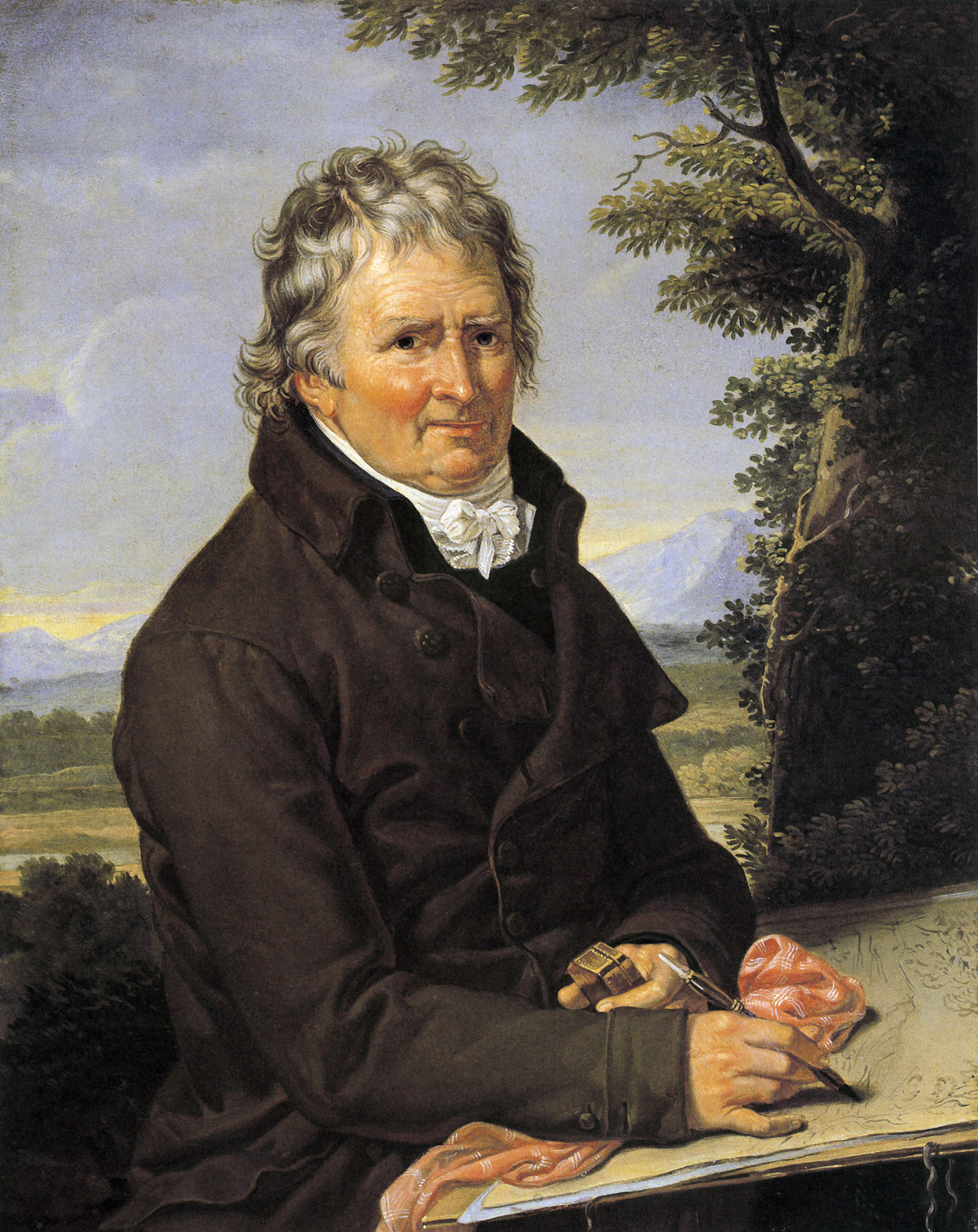 Wilhelm Titel (1784-1862), following François-Xavier Fabre (1766-1837): Portrait of the Painter Jakob Philipp Hackert while Drawing Outdoors (1806). At the Hamburger Kunsthalle.